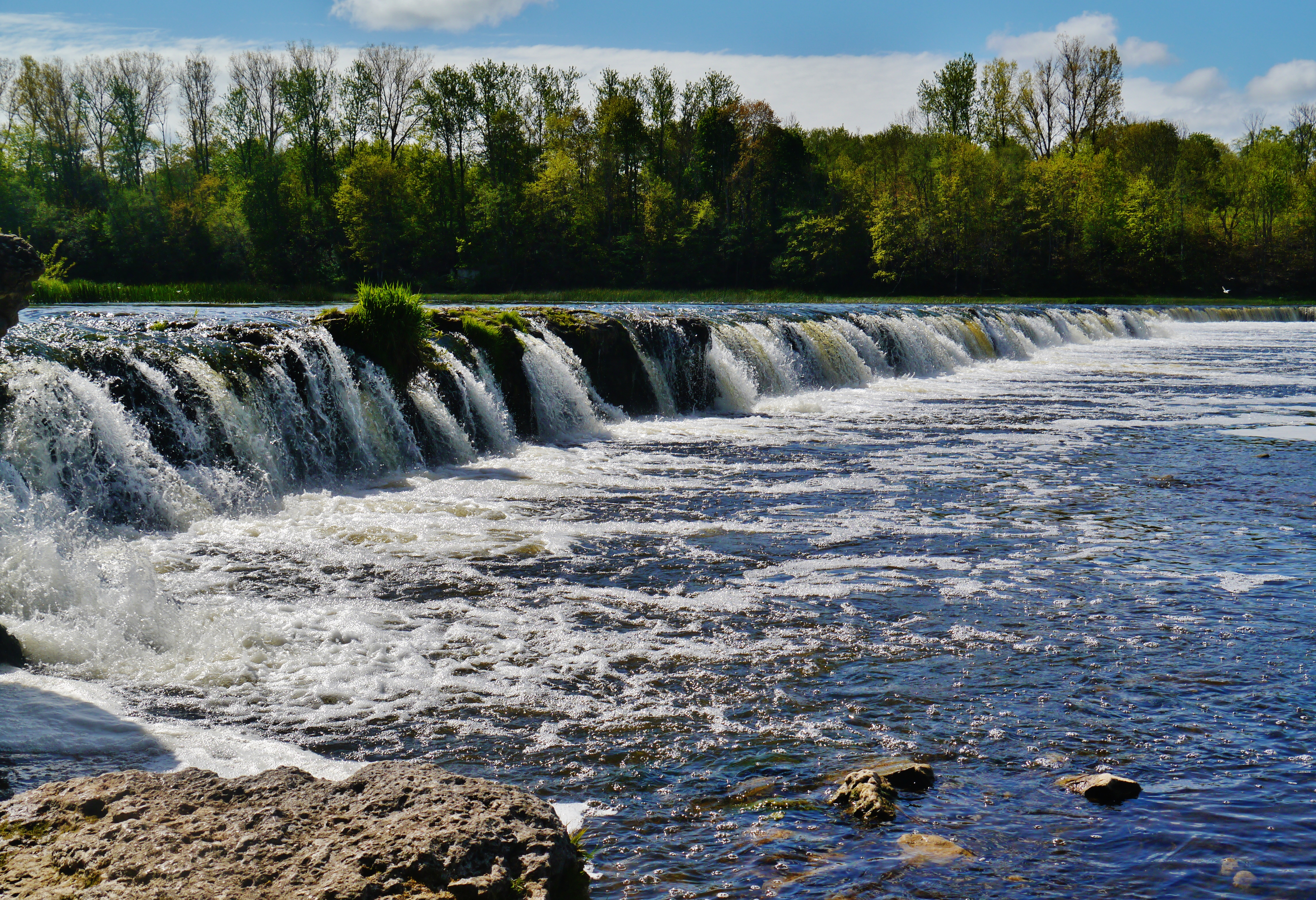 Venta rapids, Kuldiga, Latvia